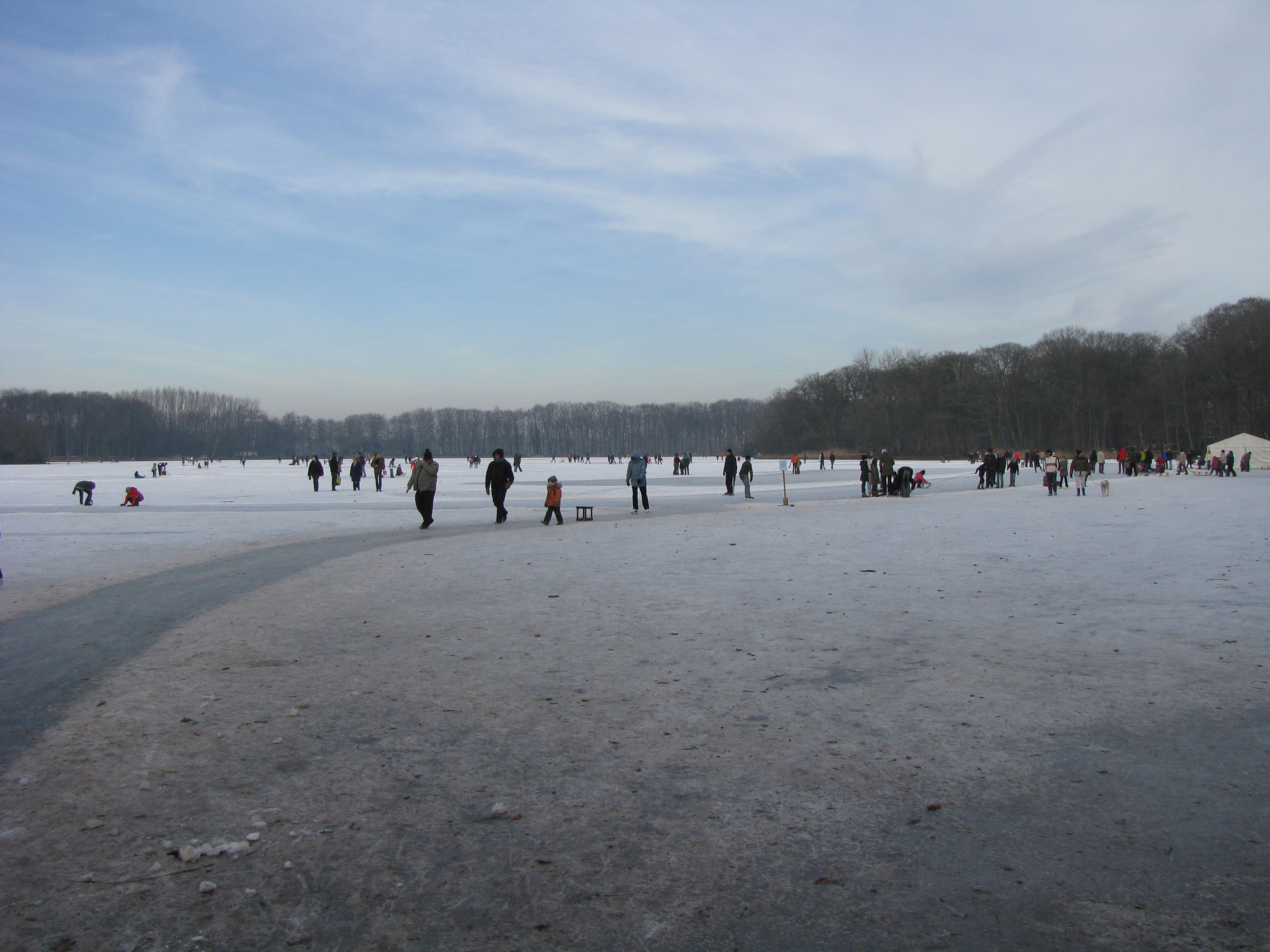 Kraenepoel Aalter Belgium